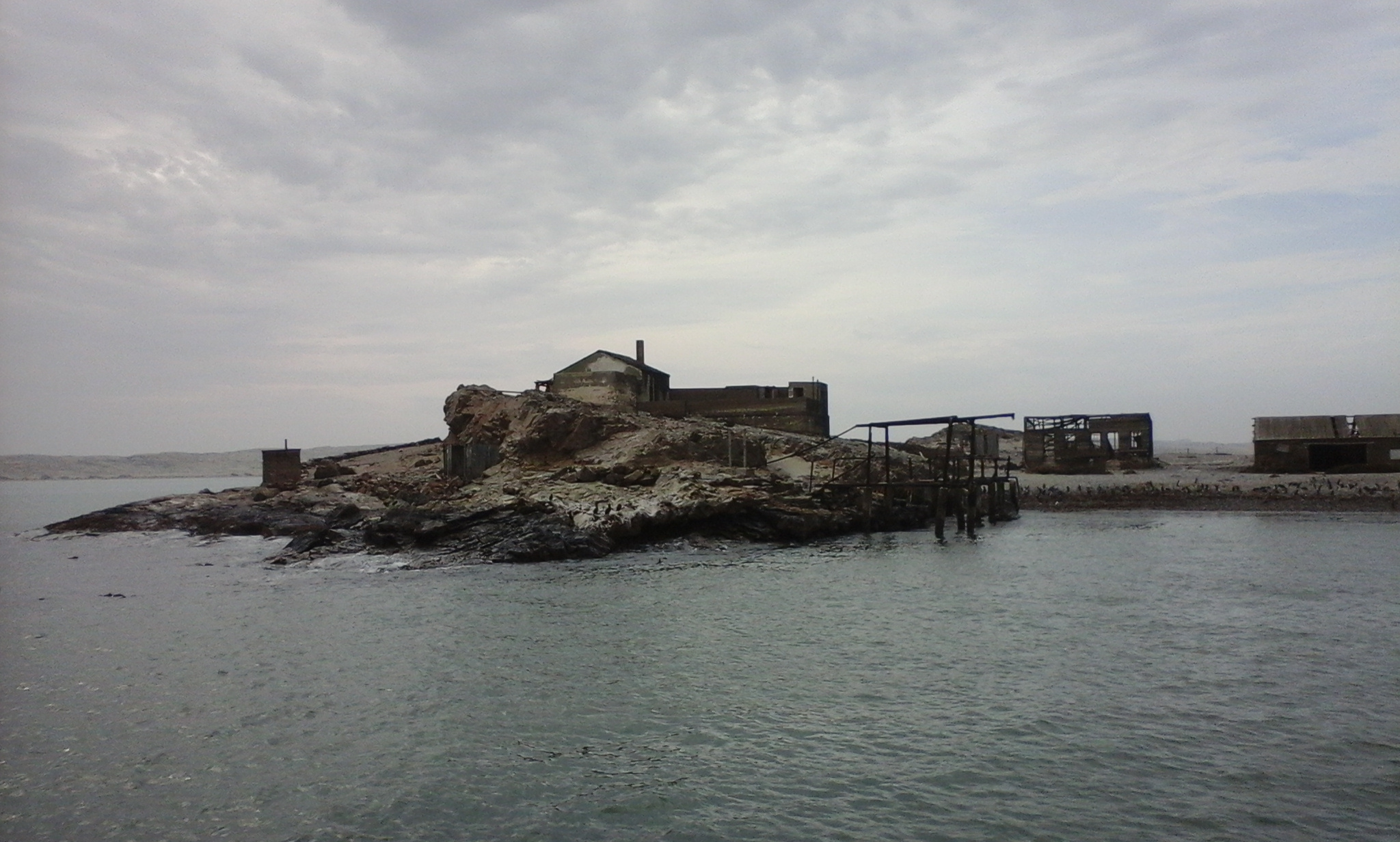 Abandoned structures of guano miners on Halifax Island, Namibia